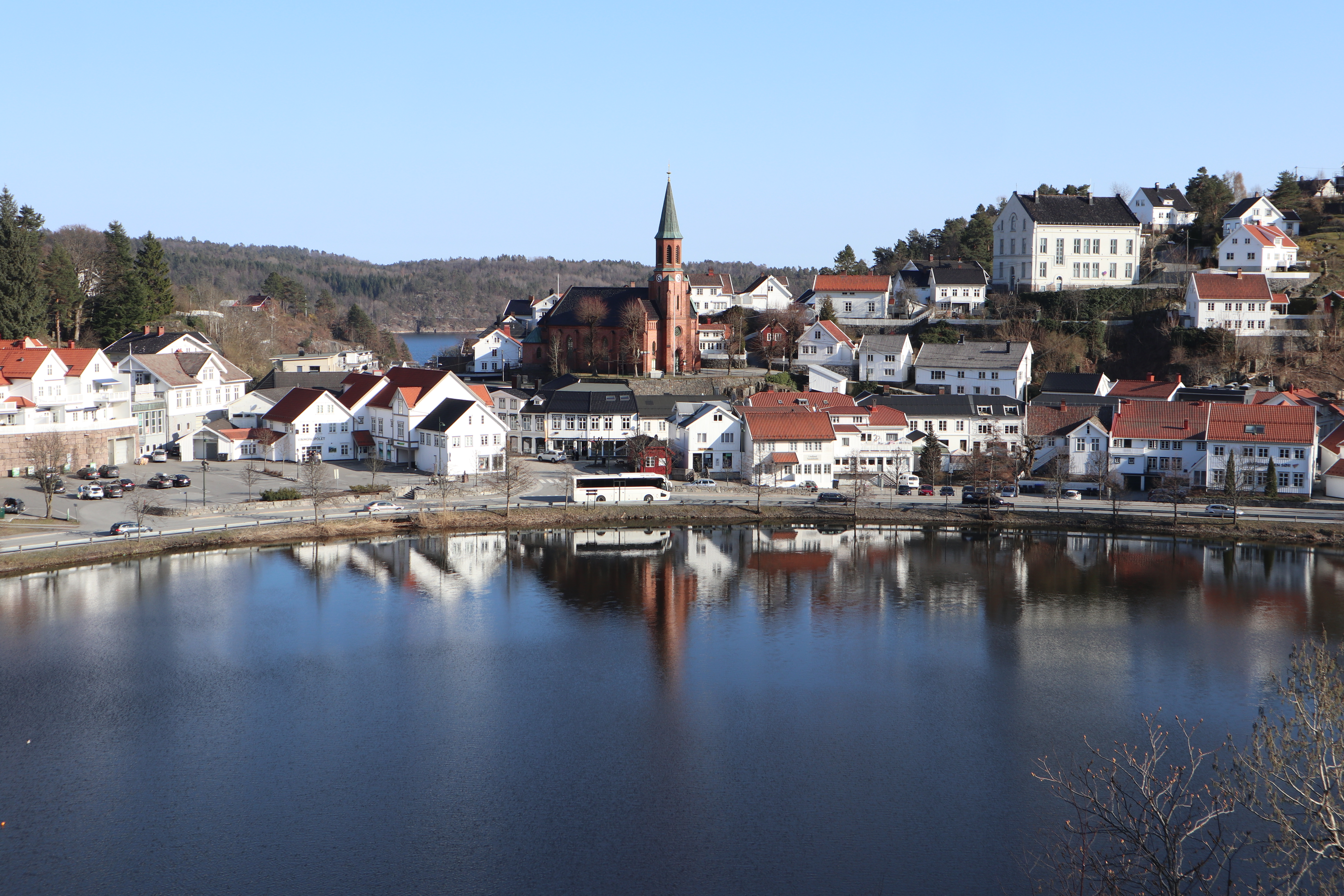 Tvedestrand ved Tjenna